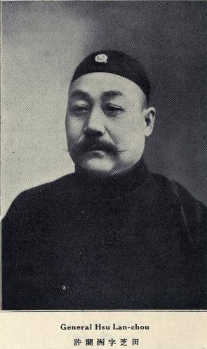 Xu Lanzhou, Zhitian (1872 - 1951)